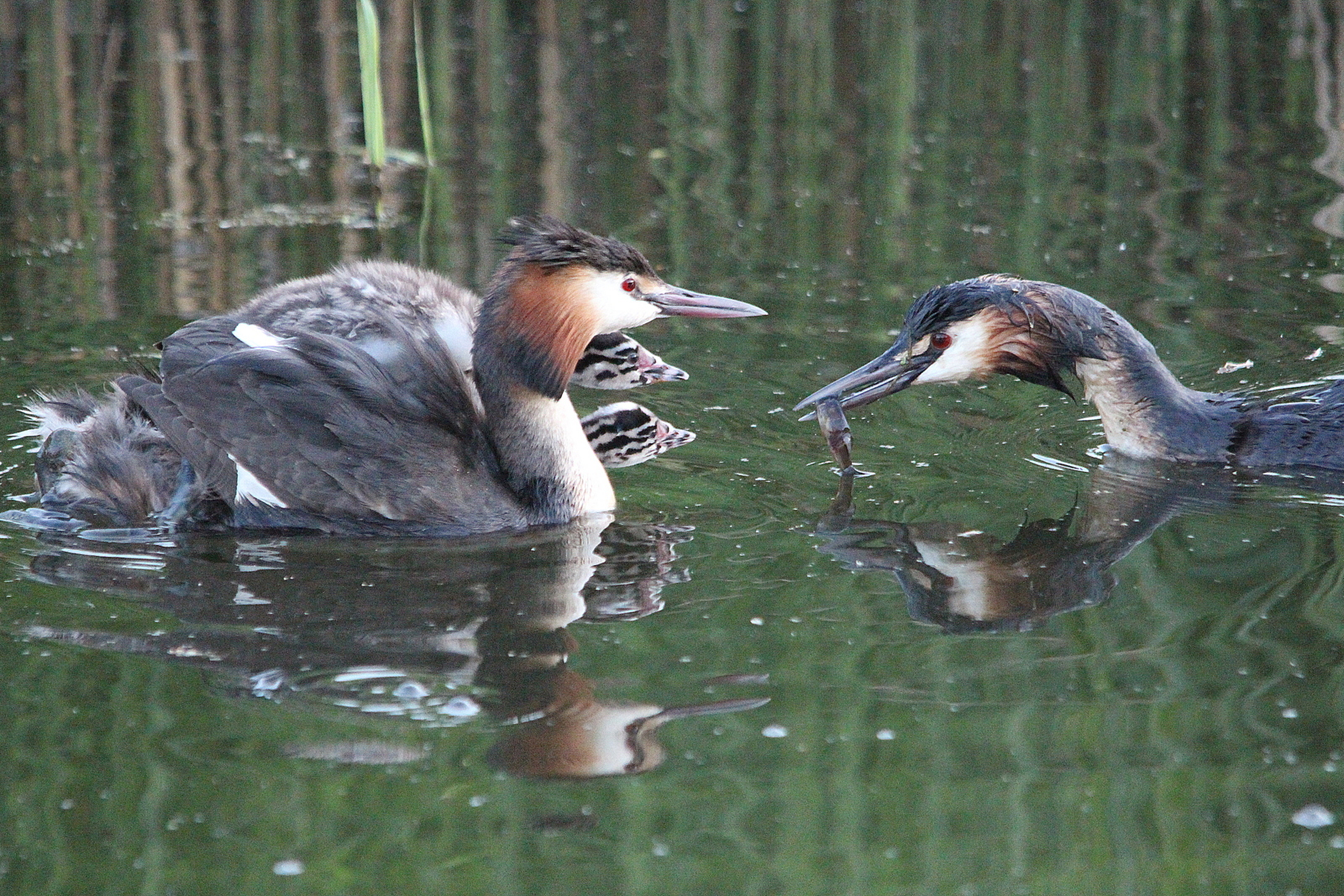 Father Grebe displays one of the chickens a fish the male always goes fishing